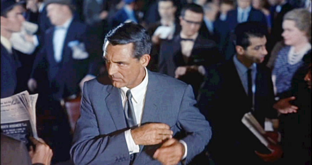 Screenshot of Cary Grant. Update: Adding undistorted image.